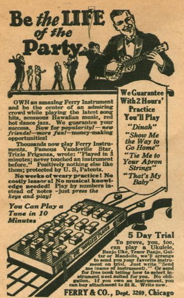 1926 US advertisement for ukulele with easy chord system; "Be the Life of the Party".